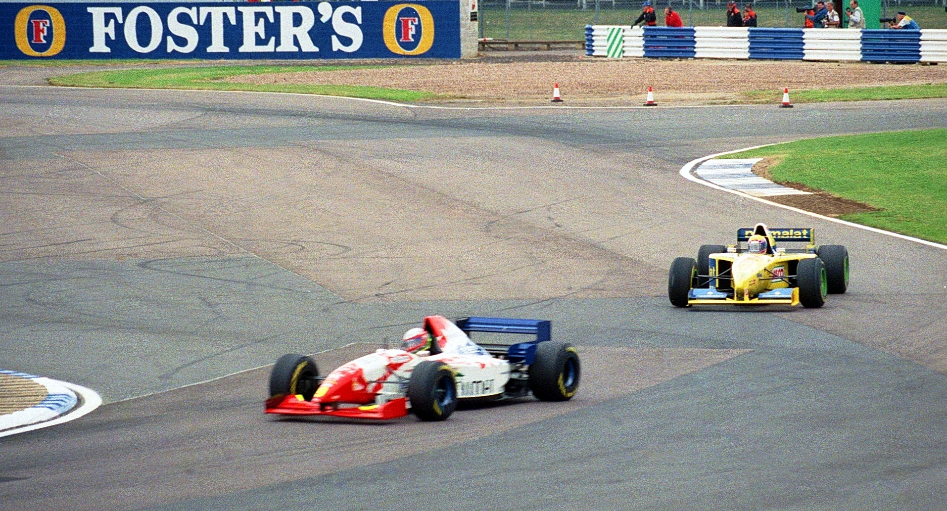 Max Papis - Footwork FA16 heads Roberto Moreno - Forti FG01 at the 1995 British Grand Prix, Silverstone